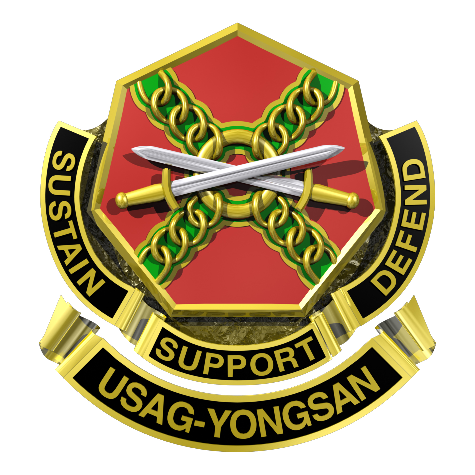 United States Army Garrison, Yongsan, IMCOM-Korea Region Distinctive Unit Crests & Insignia